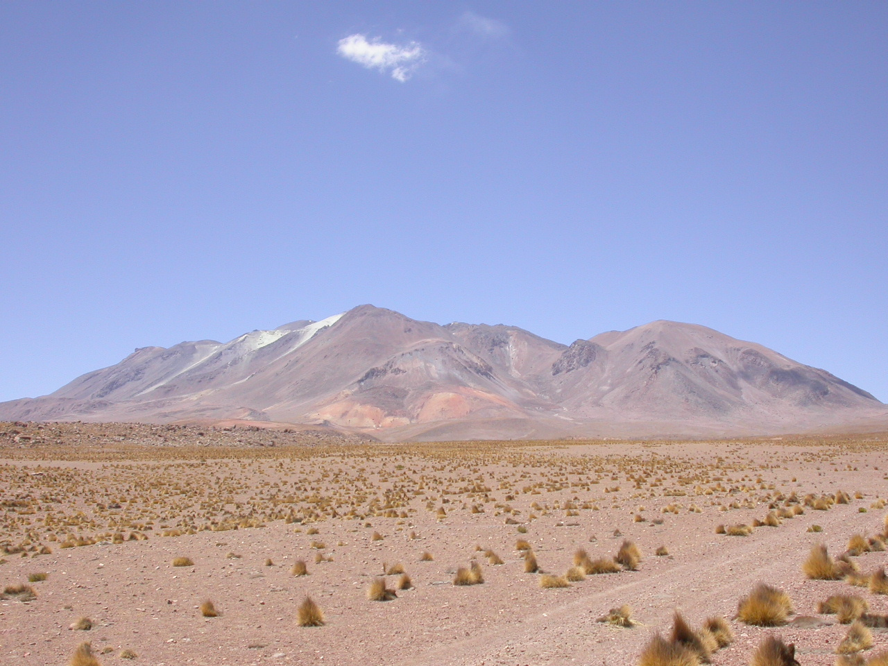 Aucanquilcha Volcano as viewed from the northwest